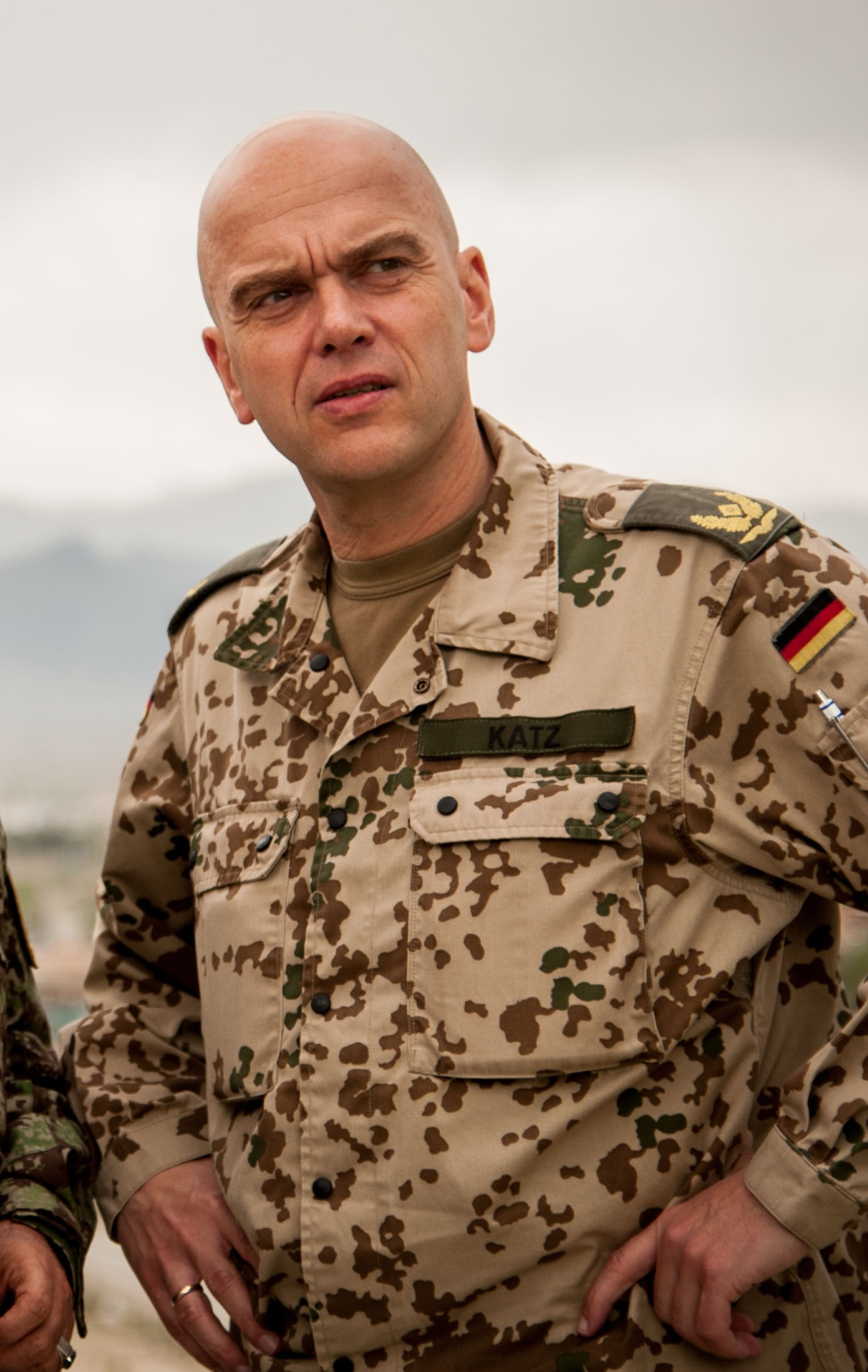 German air force Brig. Gen. Günter Katz, an International Security Assistance Force spokesman, surveys the grounds at the Afghan National Defense University (ANDU) in Kabul, Afghanistan, May 7, 2013.